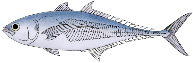 A hand drawn and coloured image of the torpedo scad, Megalaspis cordyla for taxobox. Image based on photographs at Fishbase